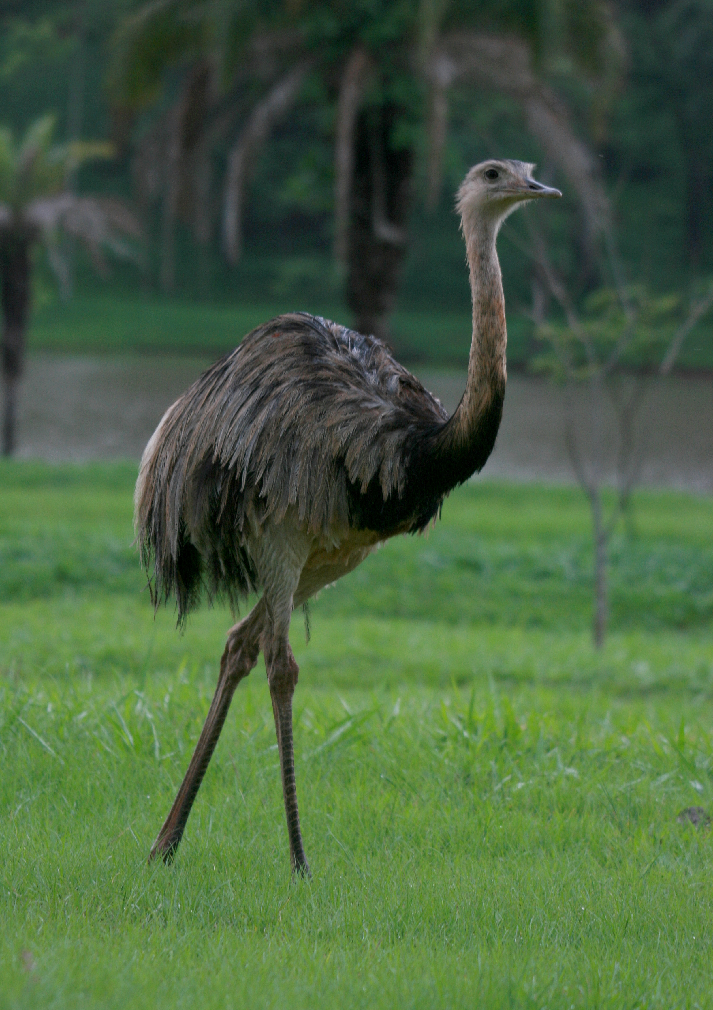 A Greater Rhea in Goiânia, Goiás, Brazil.